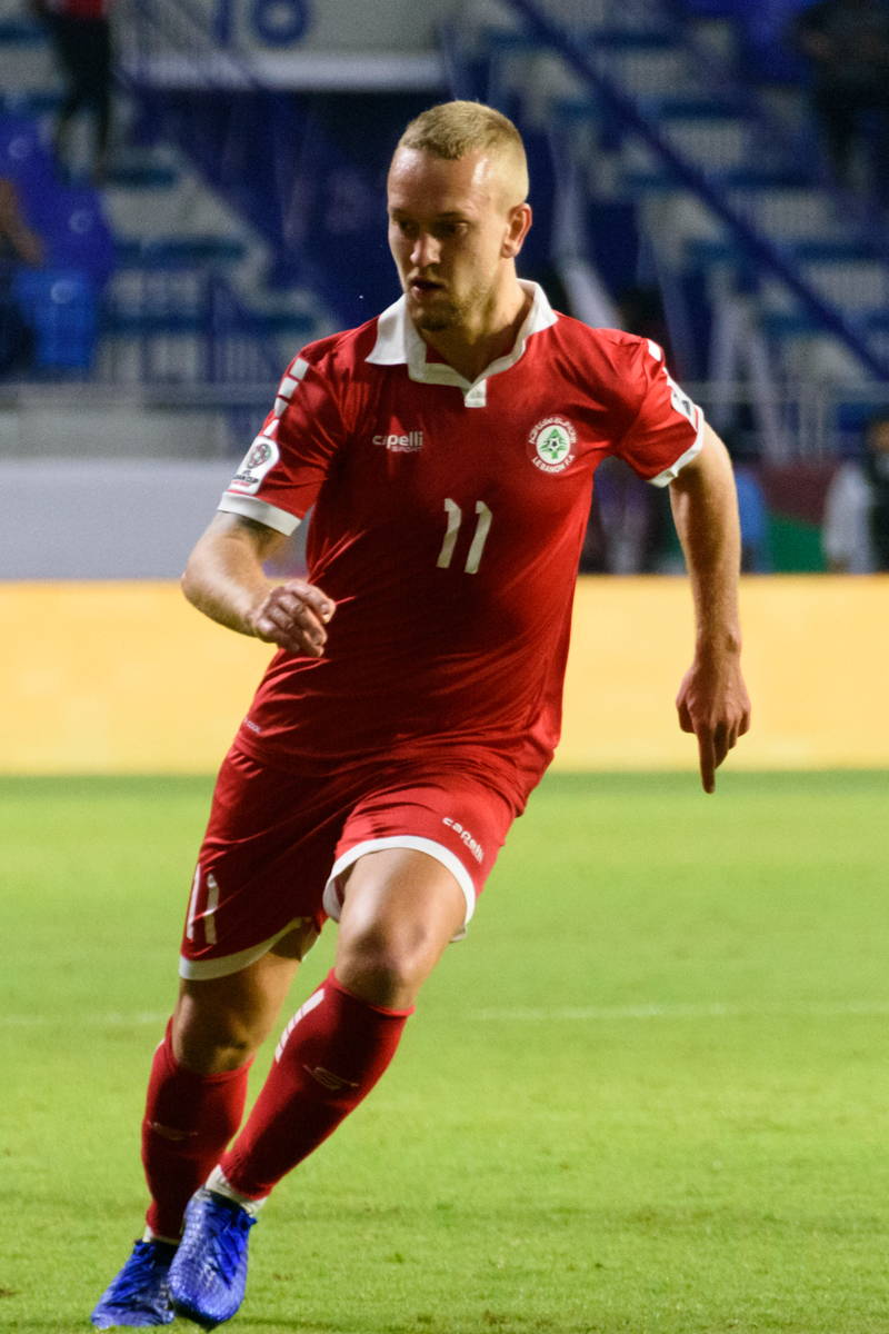 Alexander Michel Melki at the Asian Cup 2019